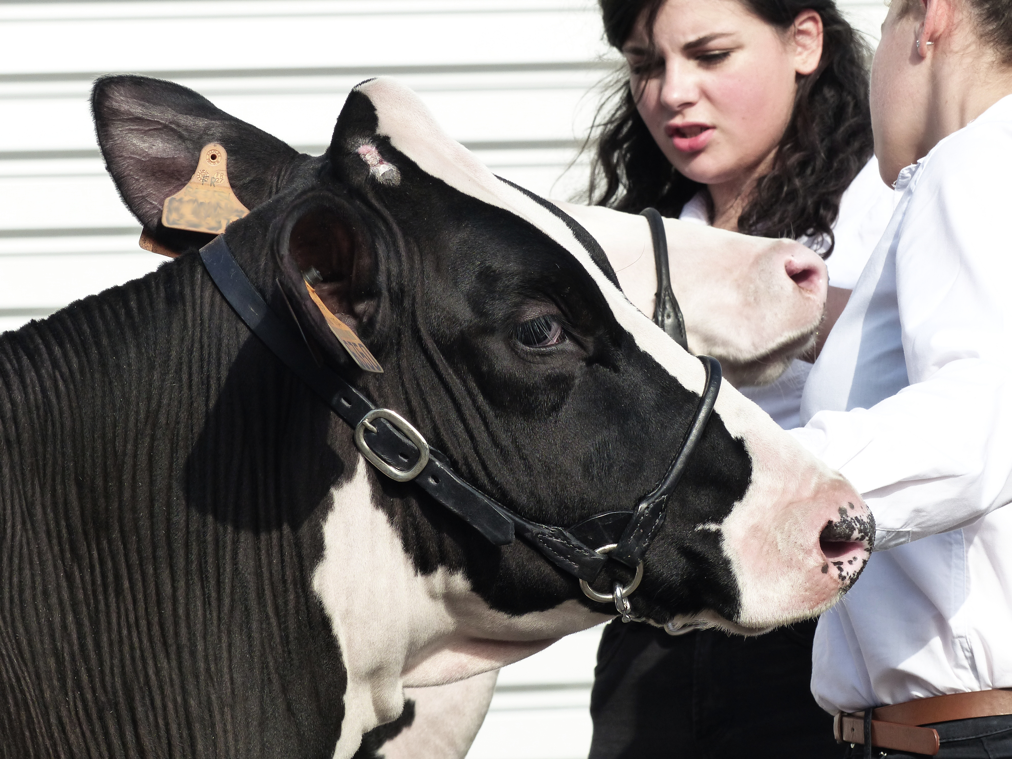 Young cow, french Prim'Holstein breed, from Pontivy Le Gros Chêne, at contest Ohh la Vache 2017.